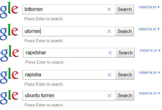 Google has set up the censorship of the words torrent and rapidshare in its instant search. Together with the links to unauthorized copies it has also censored legitimate torrents, such as the free operating system Linux Ubuntu.